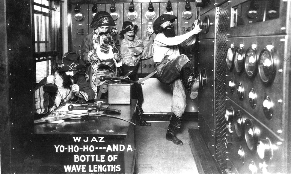 In 1926, WJAZ in Chicago, Illinois was accused of being a "pirate" radio station because it had begun transmitting on an unassigned frequency of its own choosing. On February 5, 1926, while litigation with the U.S. government was ongoing, the station broadcast the operetta "The Pirate". For publicity, the engineering staff was photographed wearing pirate outfits in the transmitter room. Original caption: "THE CREW OF A 'PIRATE STATION' IN ACTION: Undaunted by the disciplinary action of Uncle Sam in bringing suit against WJAZ on the ground that it has been pirating wave-lengths other than those assigned to it, the outlaw Chicago station recently--and appropriately--broadcast the operetta 'The Pirate'"